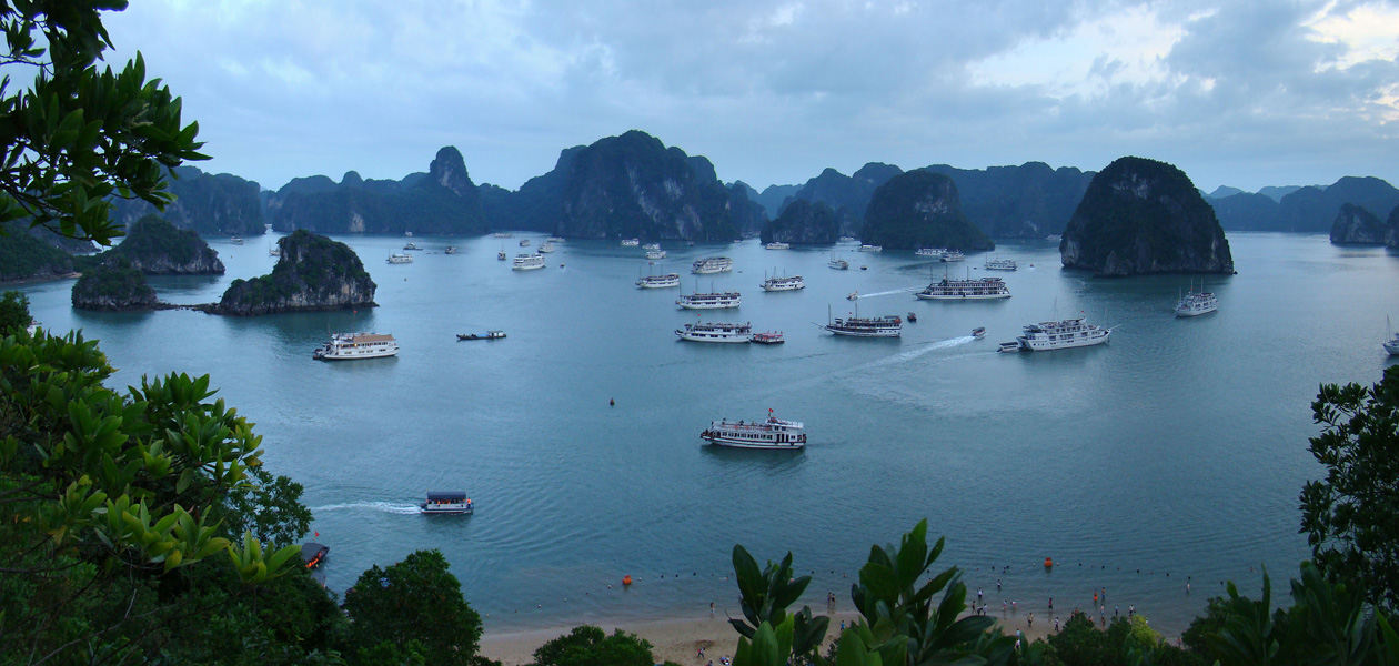 Ha Long Bay, Vietnam.